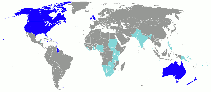 Countries where English is the national language or the native language of the majority. Countries where English is an official language, but not the majority language.